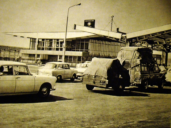 People's Republic of Poland